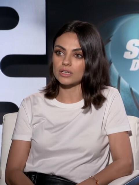 The stars of action comedy The Spy Who Dumped Me, Mila Kunis and Kate McKinnon, reveal the moments they couldn’t help LOLing at on set, what they love most about each other, the superhero Kate is dying to play and the ONE thing it will take for Mila Kunis to join a big superhero movie.